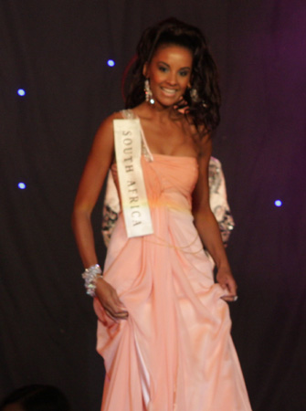 Miss South Africa 2008 Tansey Coetzee during Miss World 08